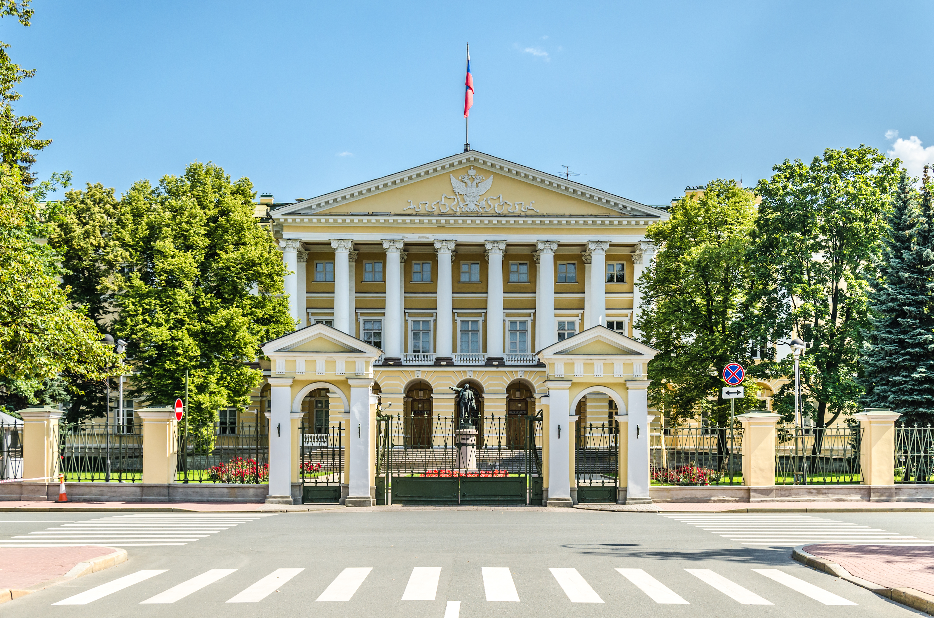 Smolniy institute in Saint Petersburg